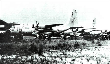 original description: "U.S. aircrews and Paracommandos at Kamina airfield prior to Stanleyville flight"[1]